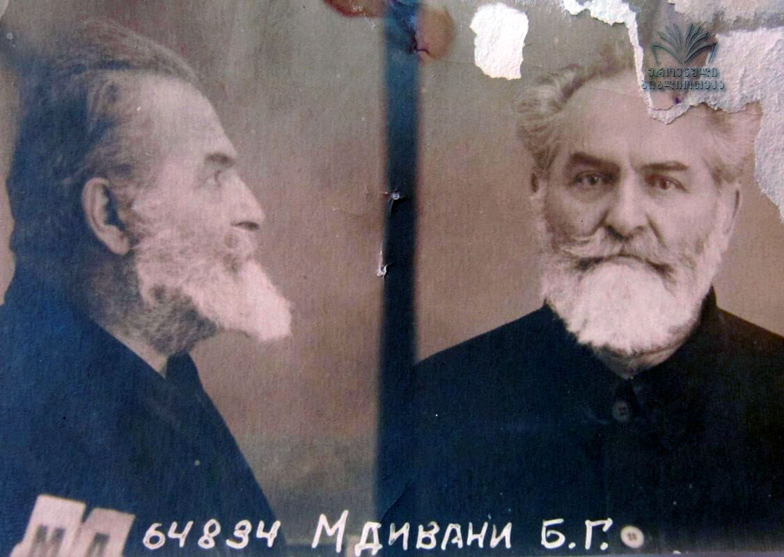 Polikarp Mdivani